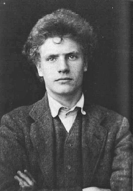 A photograph of Austin Osman Spare, aged sixteen, in 1904.